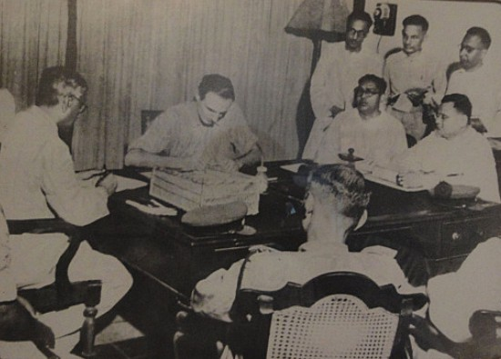 Georges Tailleur, Administrator of the French territory of Chandernagor signing the transfert of the administration of the territory to India. The formal transfer of sovereignty will take place the following year. The other 4 territories of French India will be transfered to India in 1954 (de facto) and 1956 (de jure). Photo published in a local newspaper in May 1950.